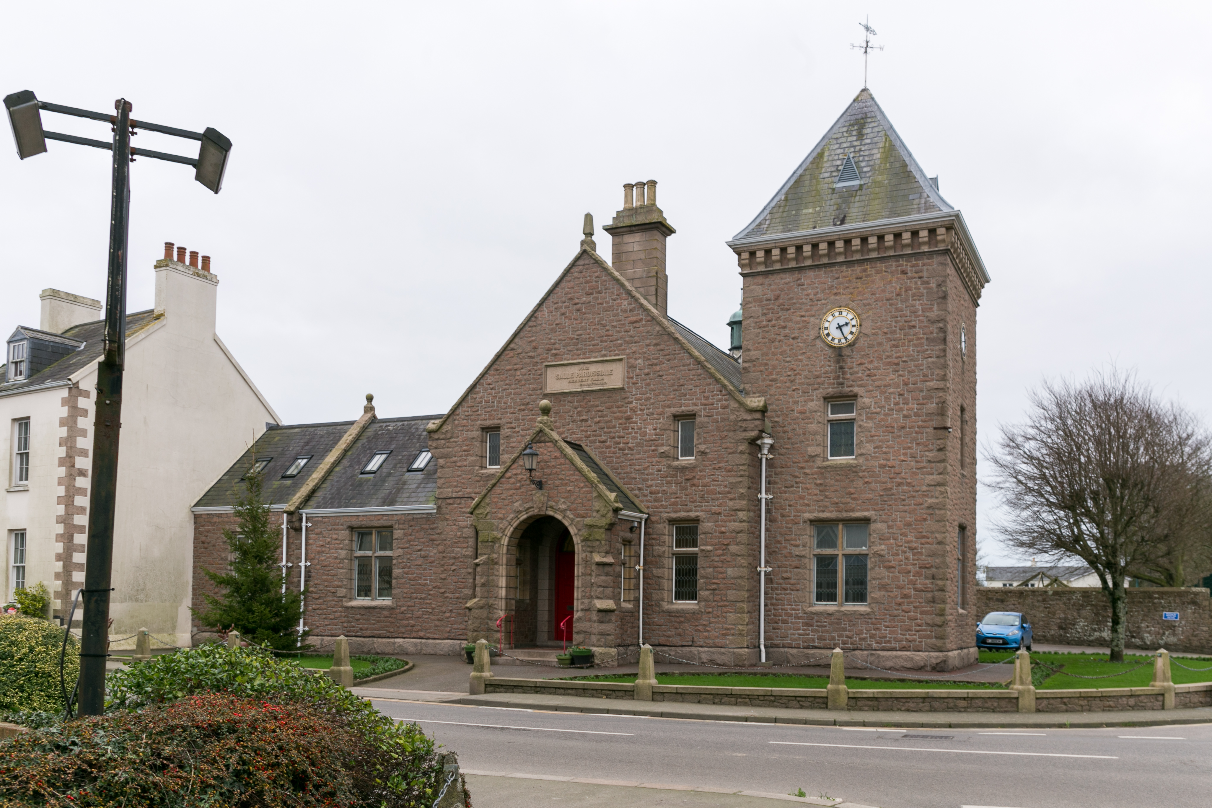 Parish hall of Saint John.